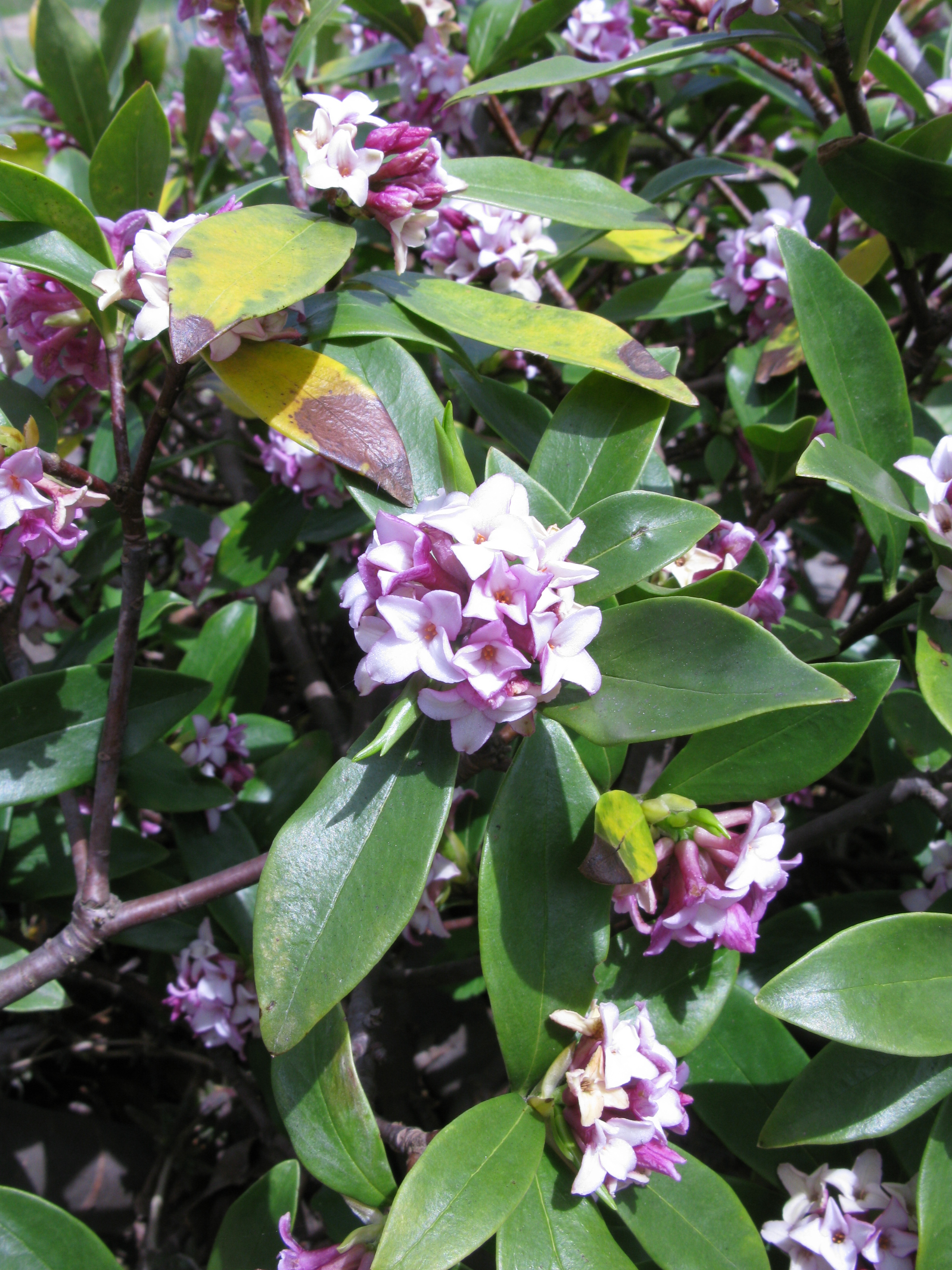 Daphne odora, Fukushima pref., Japan